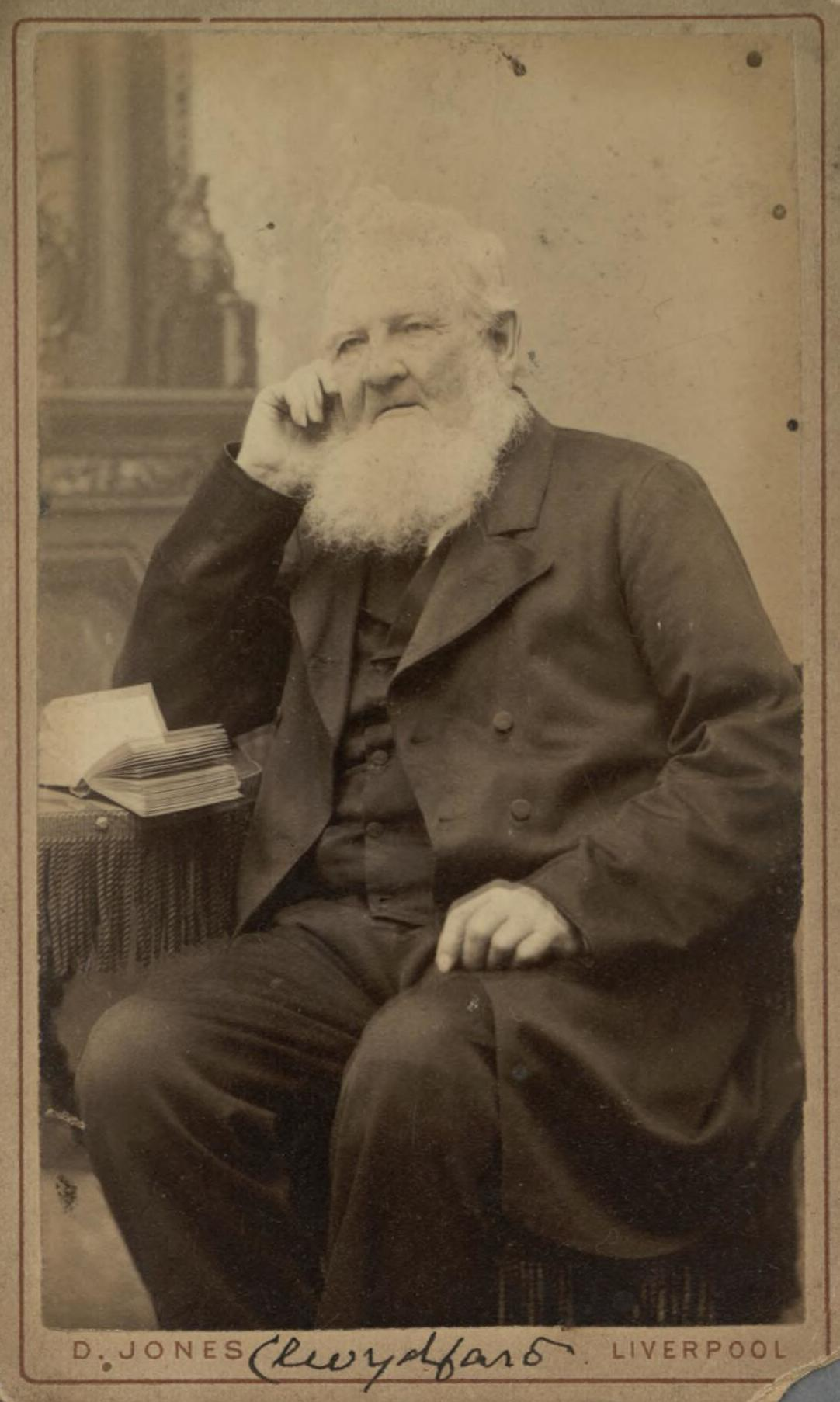 A portrait from the Welsh Portrait Collection at the National Library of Wales. Depicted person: David Griffith – Welsh poet